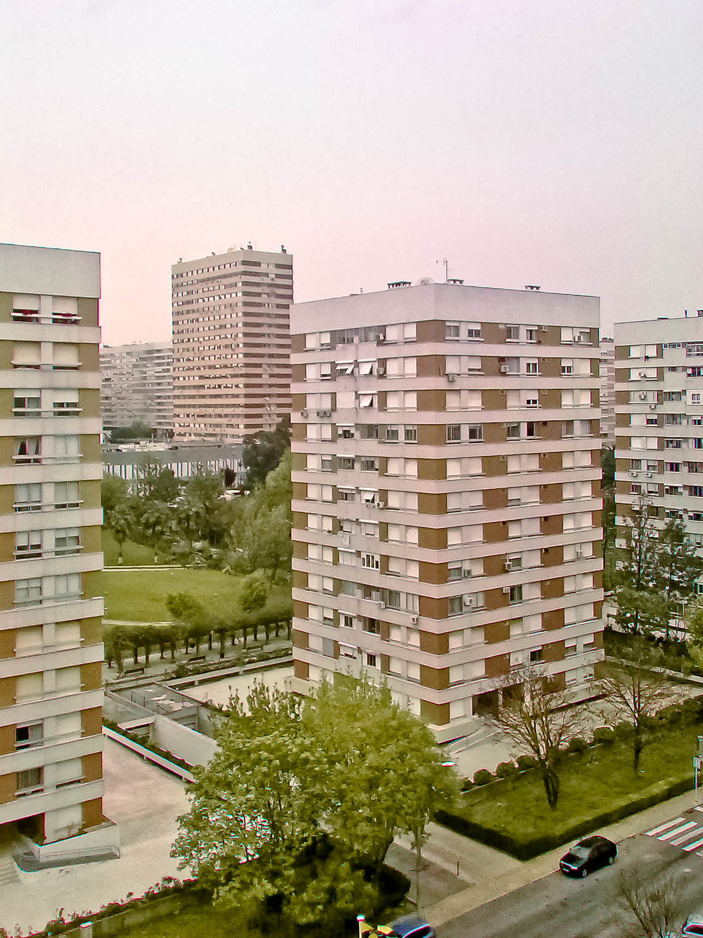 Portela view